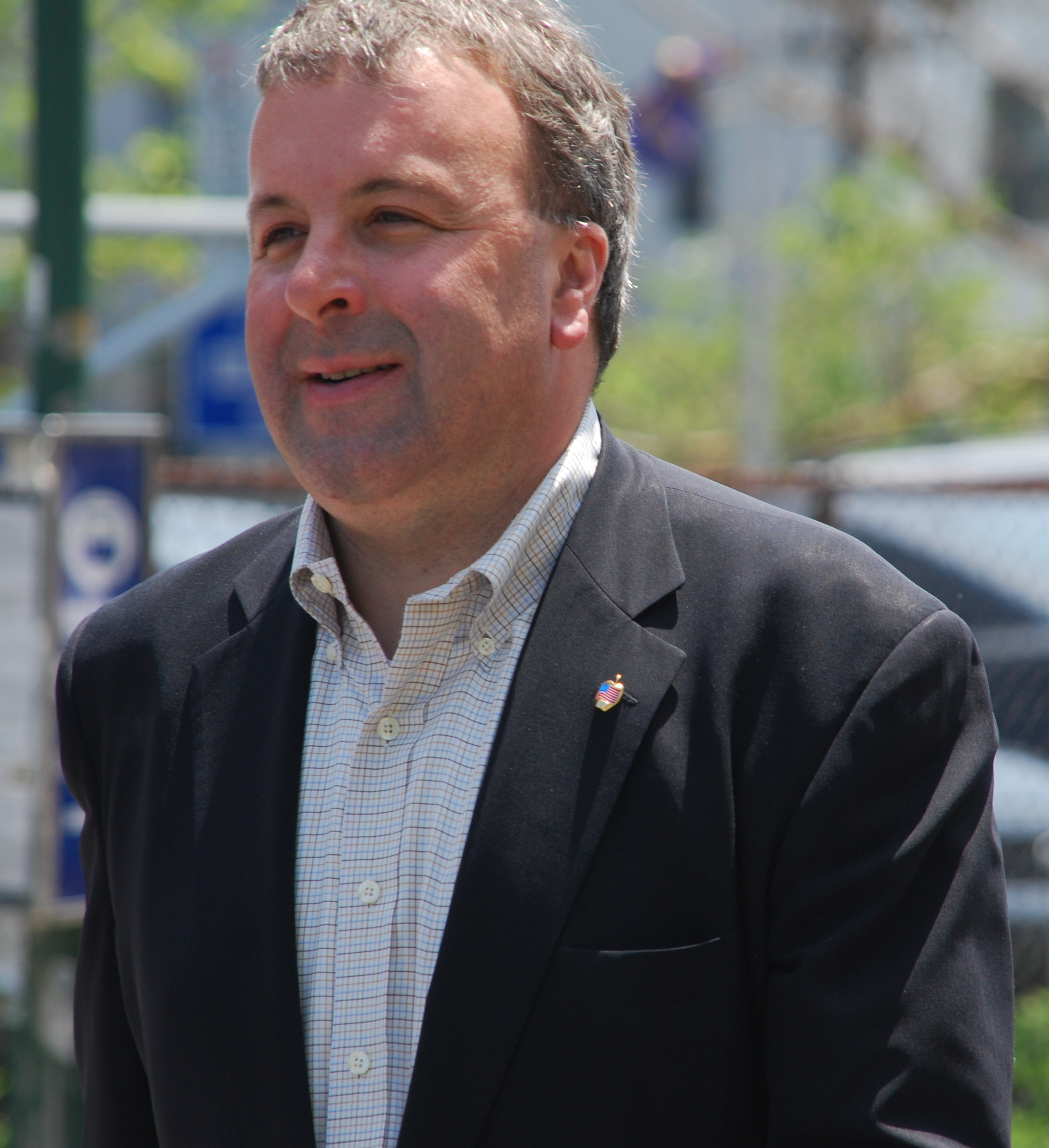 City council member Ken Mitchell (District 49) at the Staten Island LGBT Pride parade.